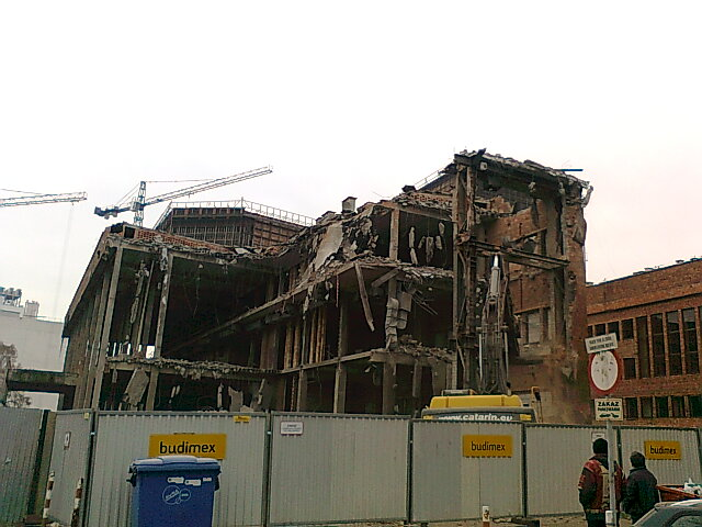 Lublin Centrum Spotkania Kultur during construction and "Theater under construction" during deconstruction (19.11.2012)